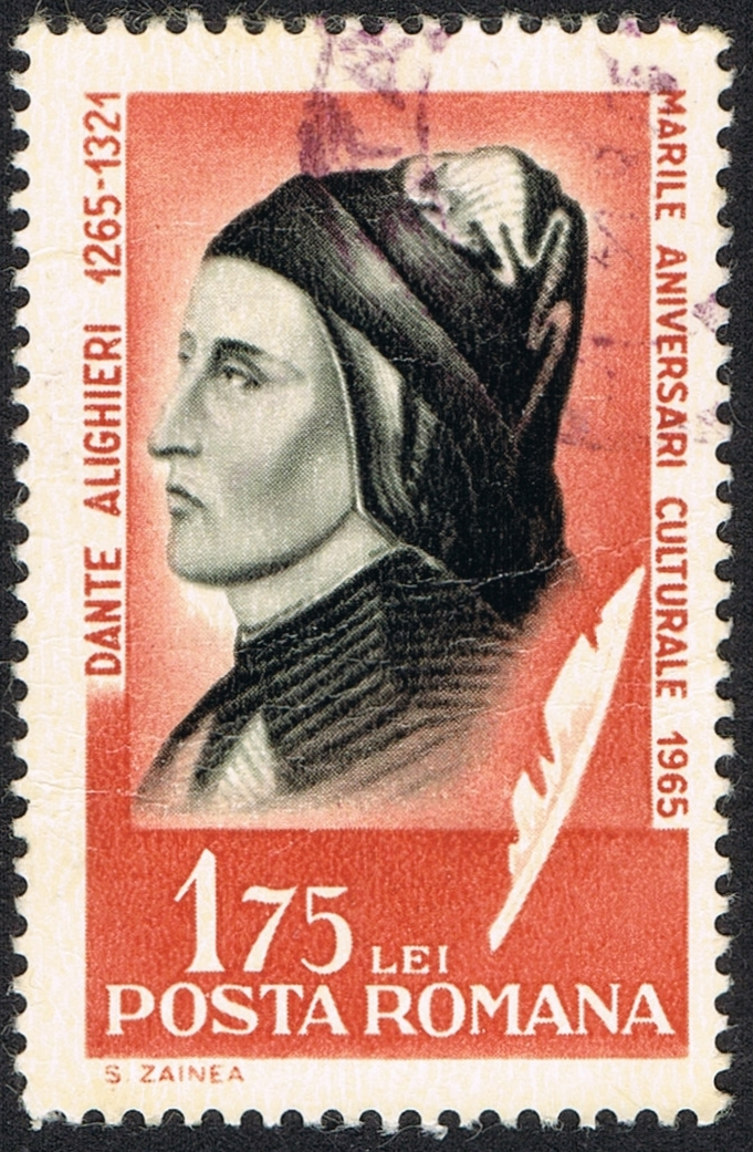 scanned stamp from Rumanian post (Posta Romana).